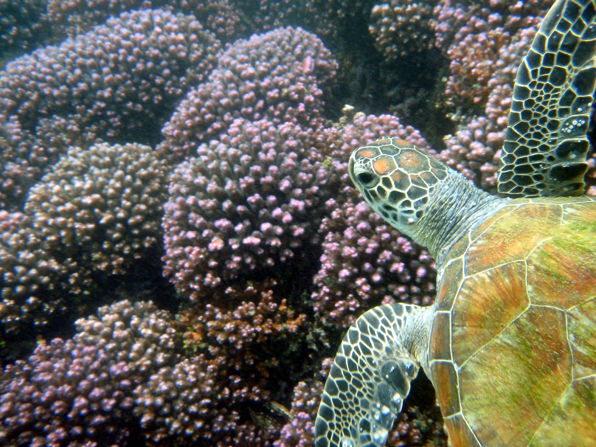 This is my favorite picture of the Turtle! (Oman)